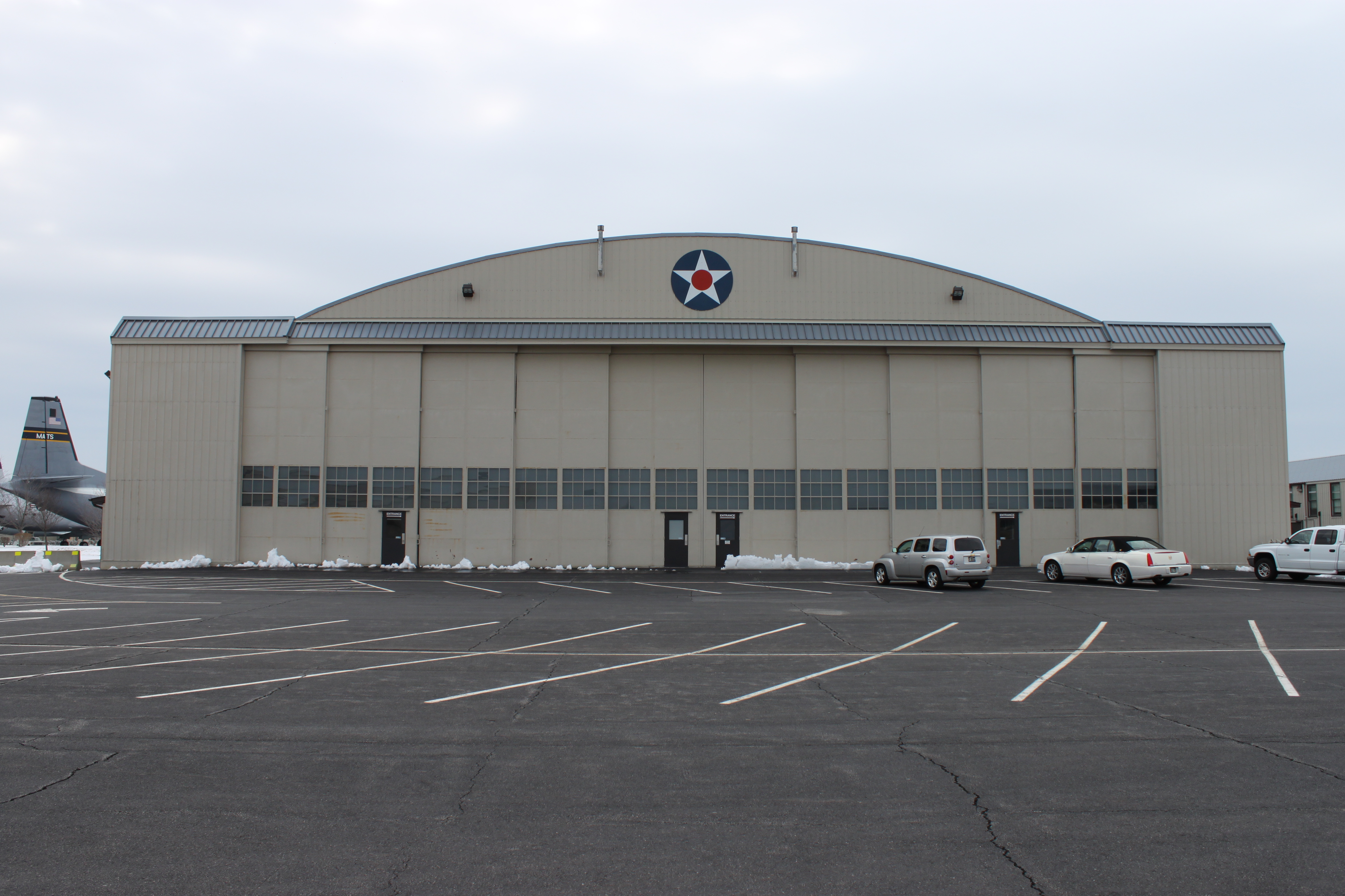 Building 1301, Dover AFB Delaware, AMC Museum